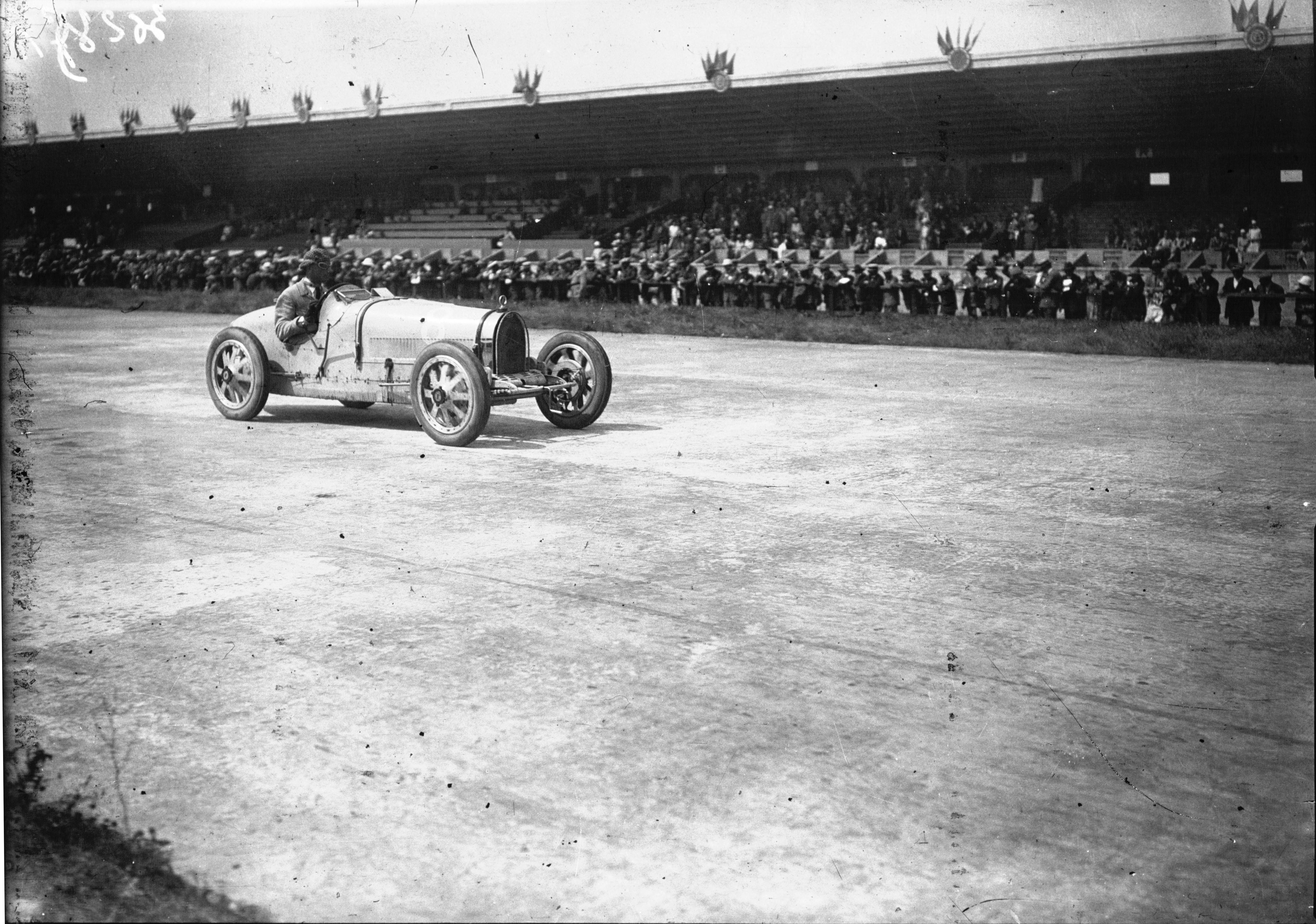 Bartolomeo Costantini at the 1926 French Grand Prix